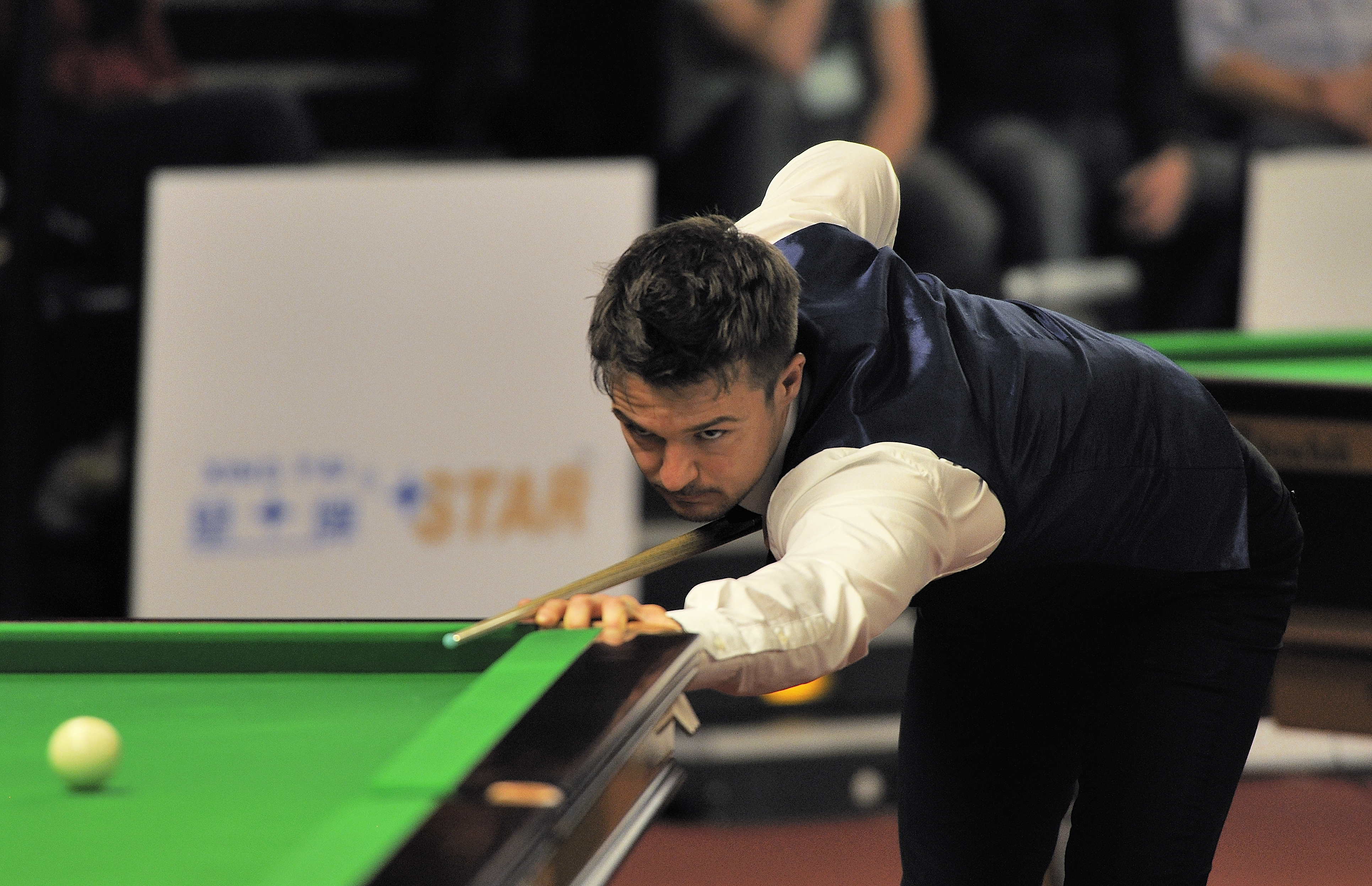 Picture taken in Berlin during the Snooker German Masters in 2014. Michael Holt.